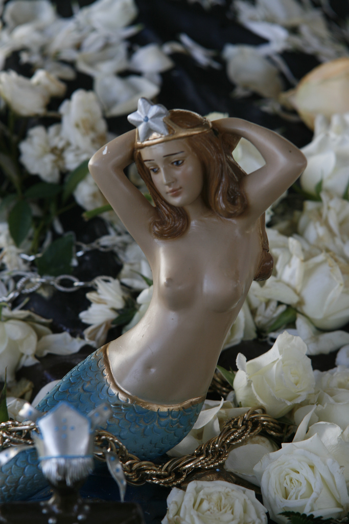 Statuette of the lemanjá, a goddess of the ocean in Afro-Brazilian religions